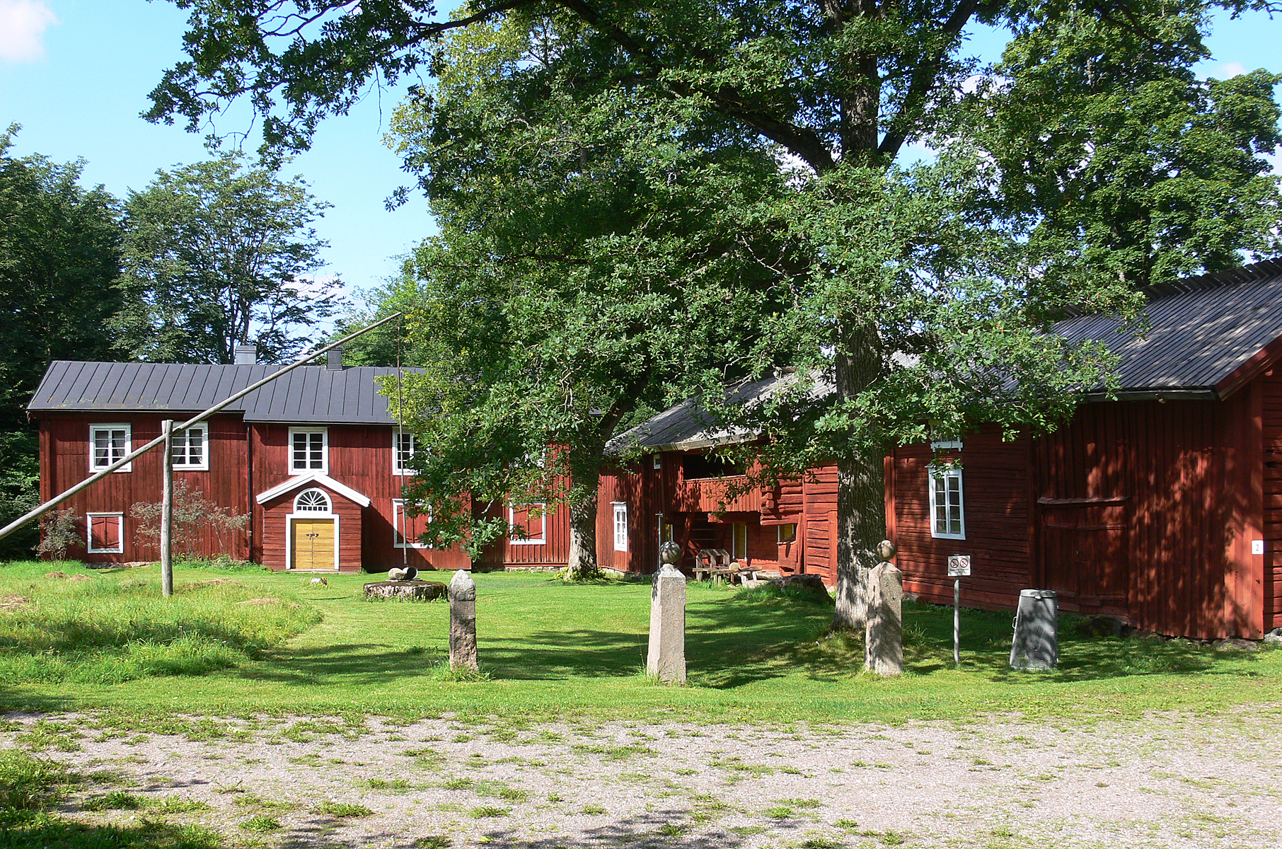 Lohilampi Museum, Old Farm Houses.